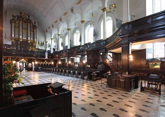 St Clement Danes, Strand, London WC2 - North gallery